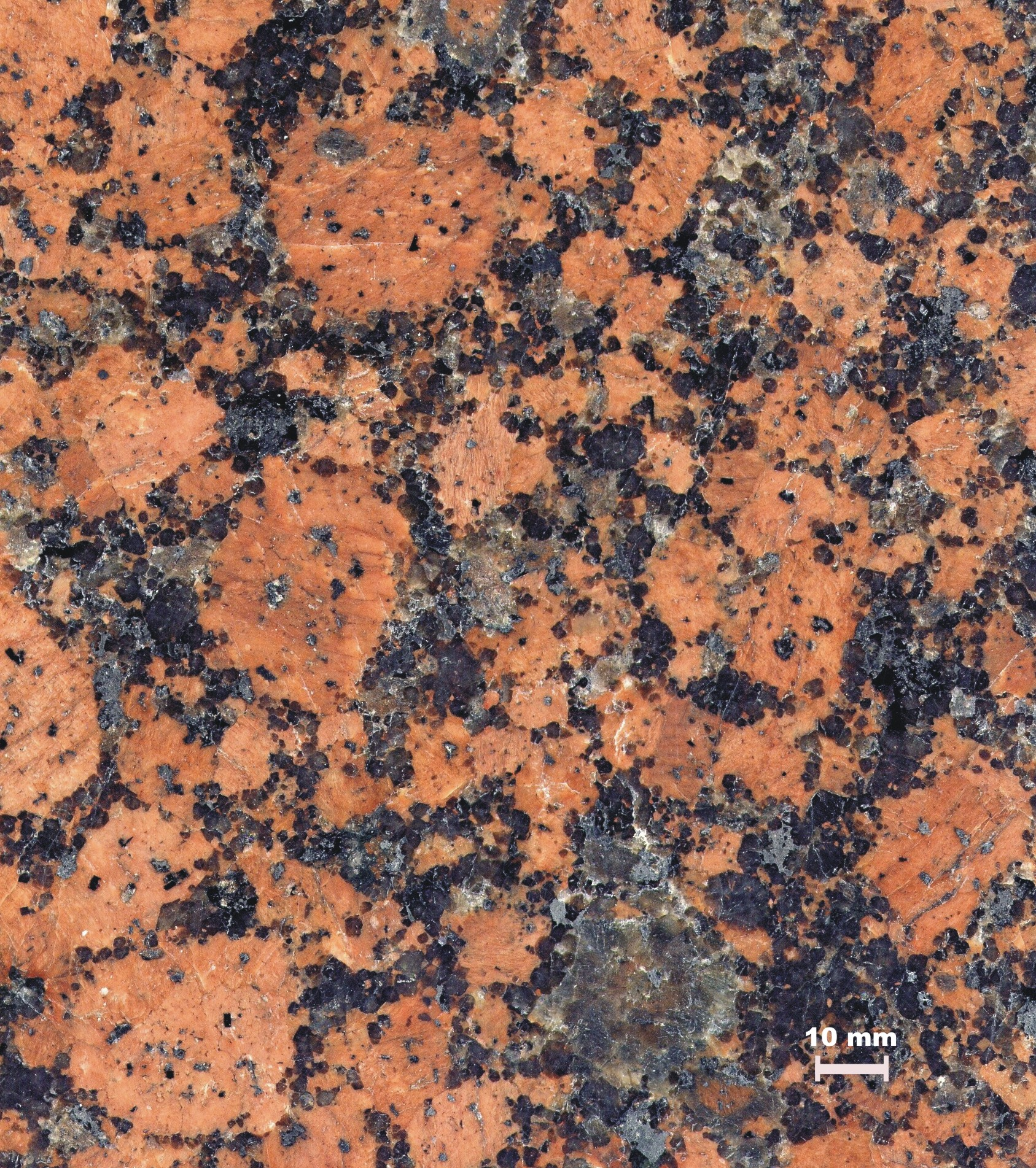 Rapakivi granite, type Pyterlite from the deposit of Virolahti, south-eastern Finland